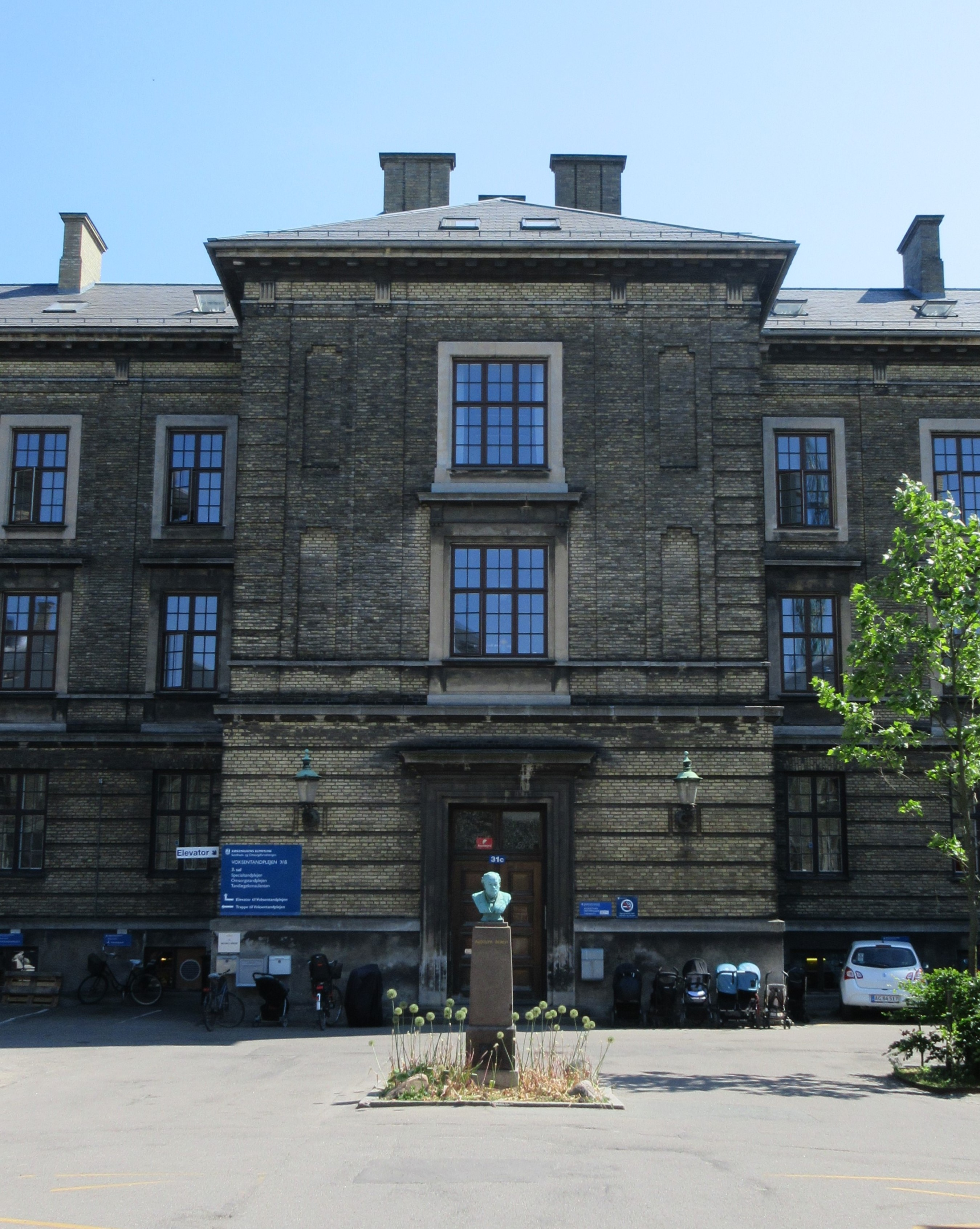 Rudolph Berghs Hospital on Tietgensgade in Copenhagen, Denmark